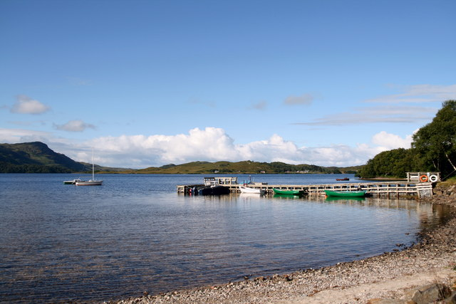 Jetty on Loch Morar On the north shore of Loch Morar, to the west of Bracara. Loch Morar is the deepest loch/lake in the British Isles.